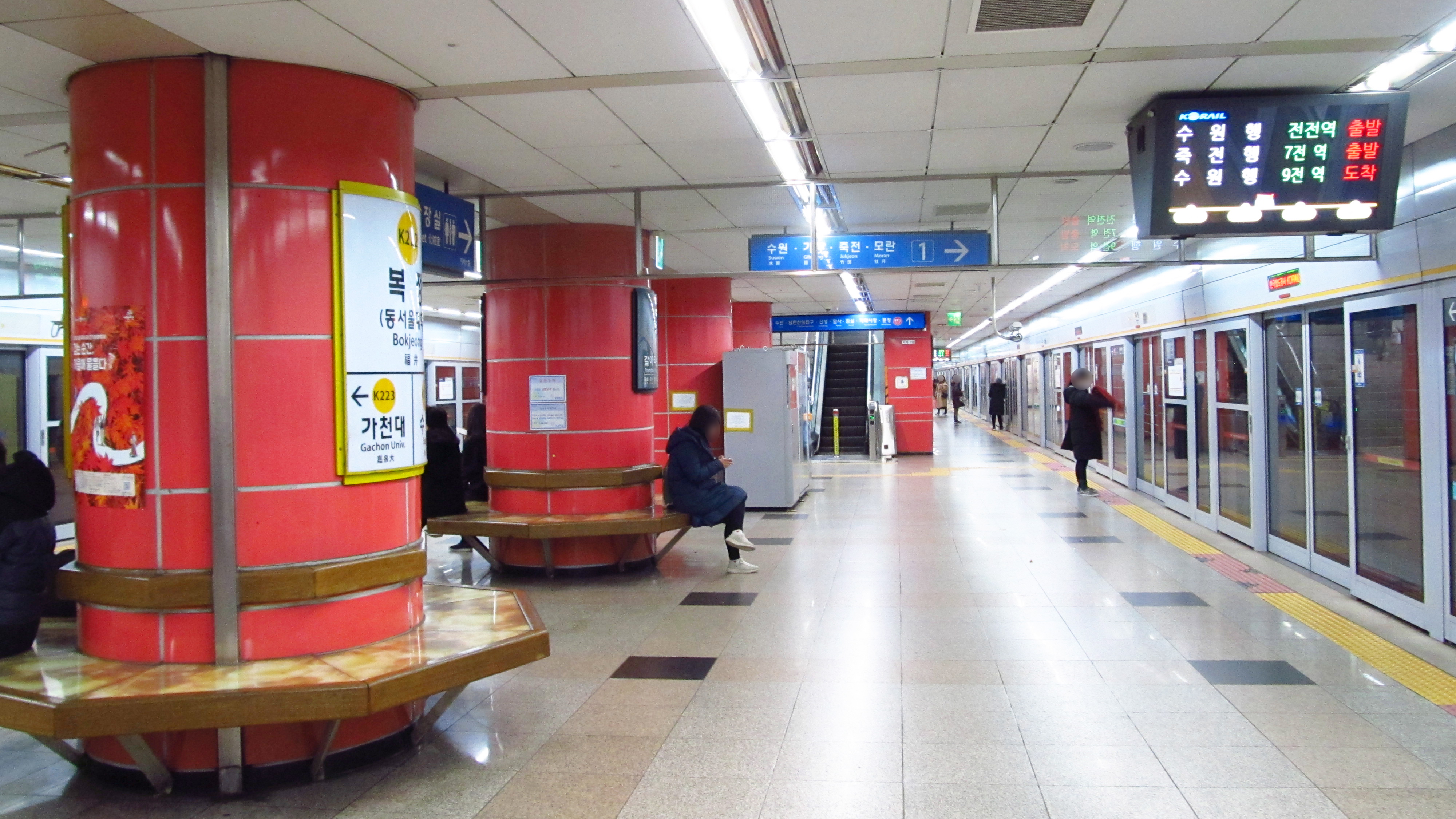 The platform at Bokjeong Station on Bundang Line in Songpa-gu, Seoul, Republic of Korea(South Korea)